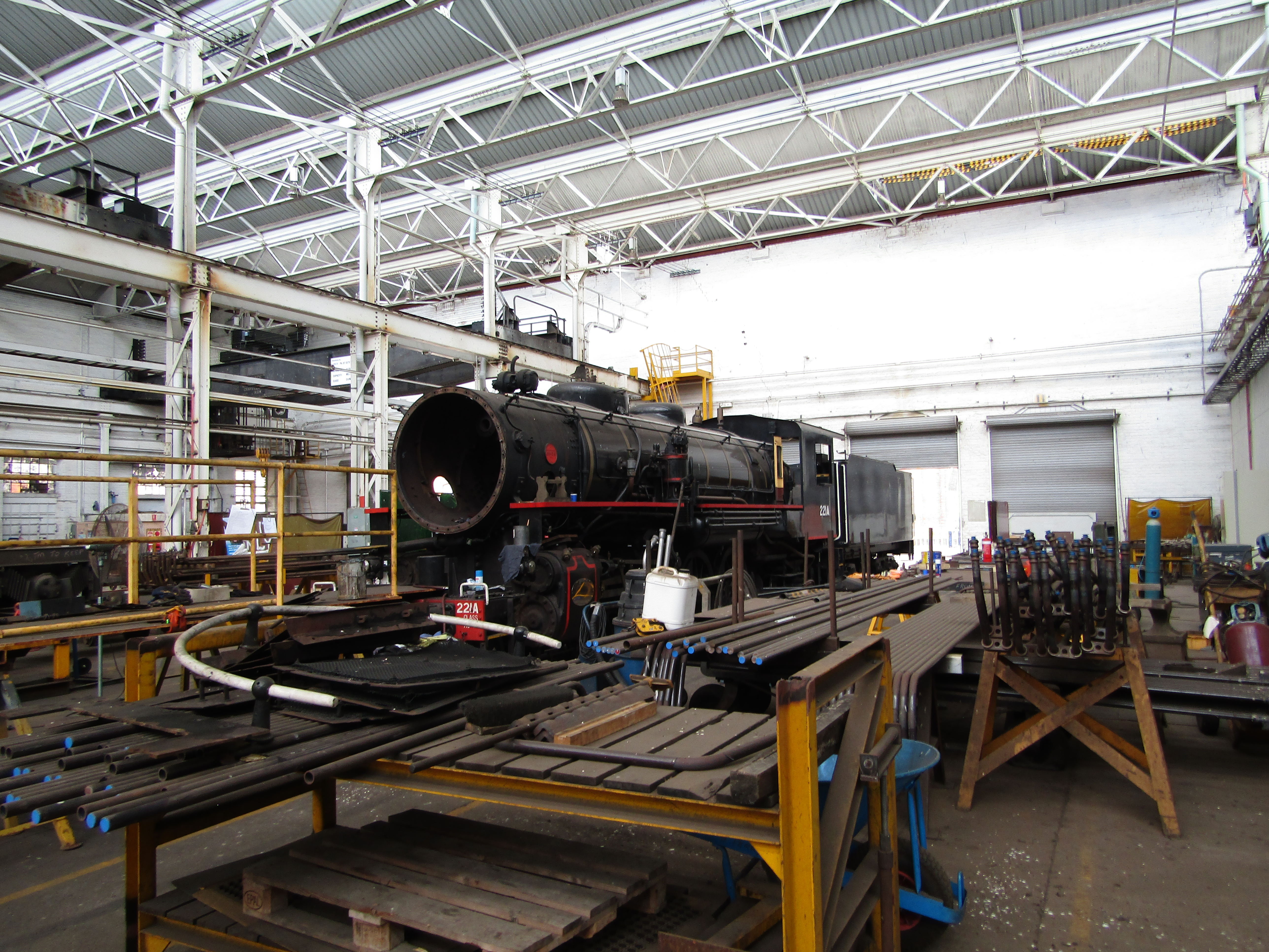 221A on display at the North Ipswich Railway Workshops having its large boiler tubes replaced